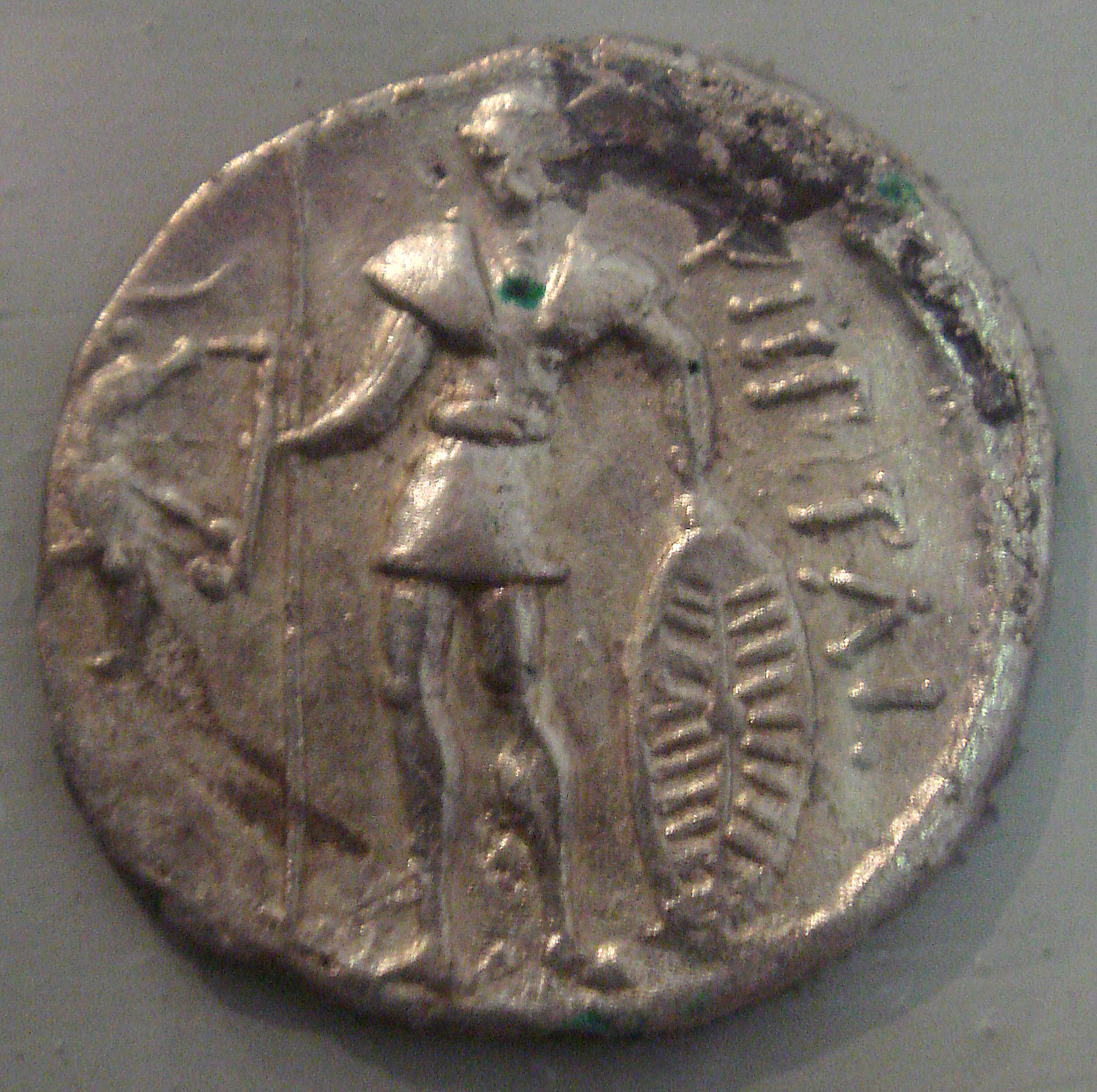 Pictones_coin_depicting_warrior_5th_to_1st_century_BCE.